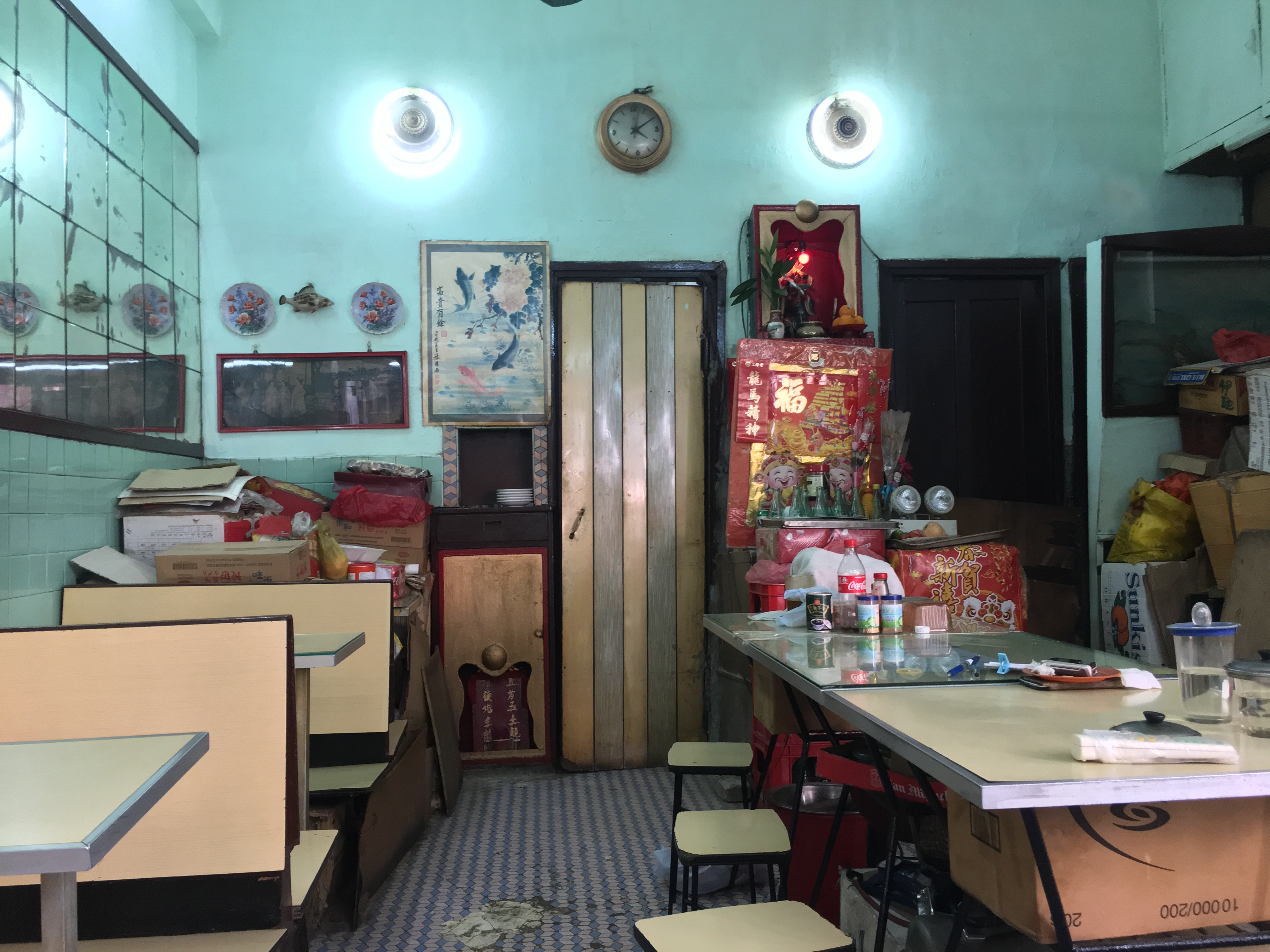 永香冰室, an old Hong Kong cha chaan teng (tea restaurant) opened in 1959. The photo was taken in 2018 and the decorations were still kept intact since the 1950s.